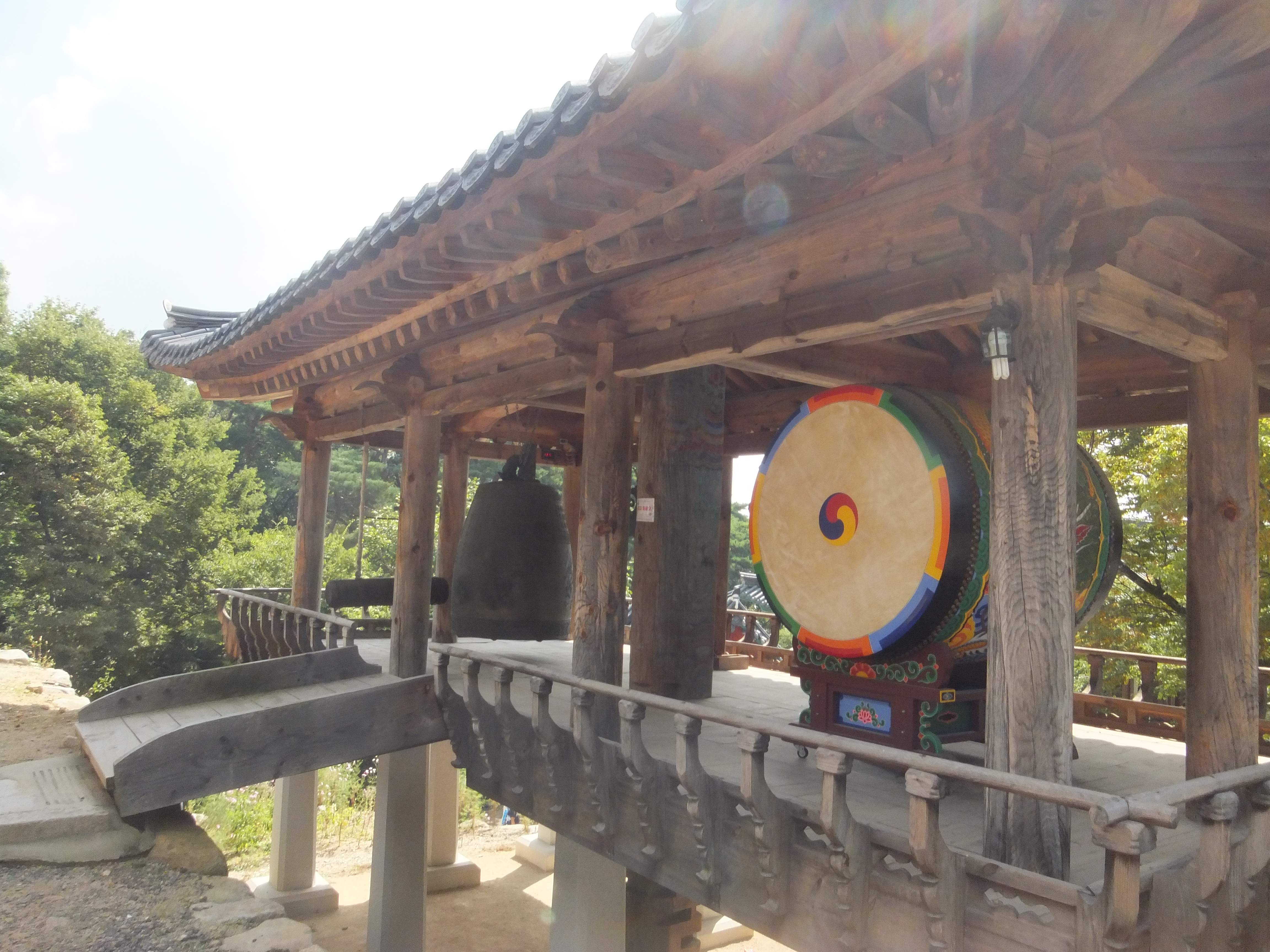 Bell- and Drum-Tower of the Donghwa-Temple (Donghwasa) in South Korea.